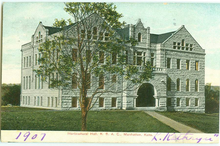 Postcard: Horticultural Hall, Kansas State Agricultural College, now Kansas State University, in Manhattan. Caption reads, "Horticultural Hall, K. S .A. C., Manhattan, Kans." Store Web page also shows reverse side of the postcard, revealing postmark of "NOV 6, 1907" postmarked from Manhattan, Kans. On left side of divided-back card: "No. C6231 Published by the South-West News Company, Kansas City, Mo. / Dresden-Leipzig-Berlin Made in Germany" and at left top, "LEIPZIG BERLIN DRESDEN /LITHO-CHROME / Trade Mark"